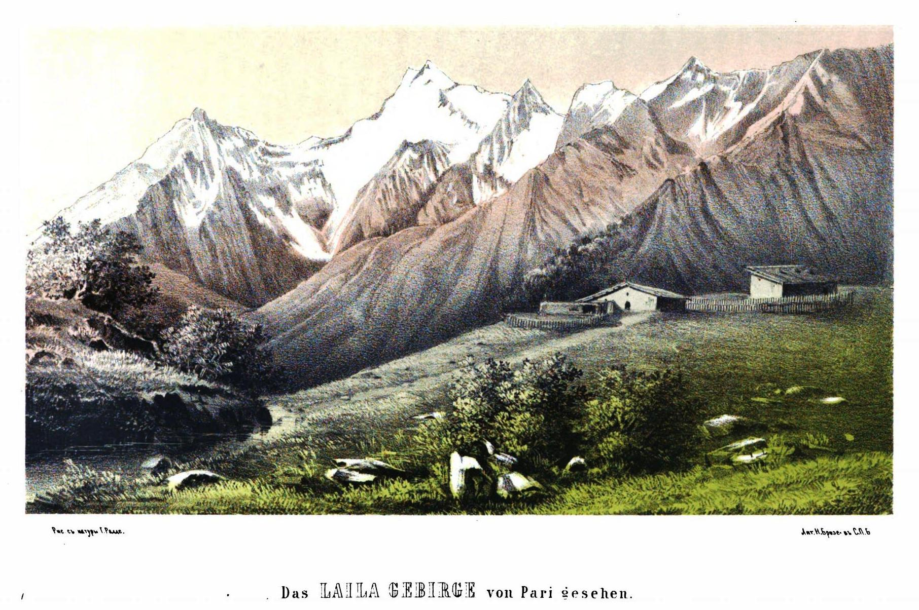 Pari village and Mt Laila, Svaneti, Georgia